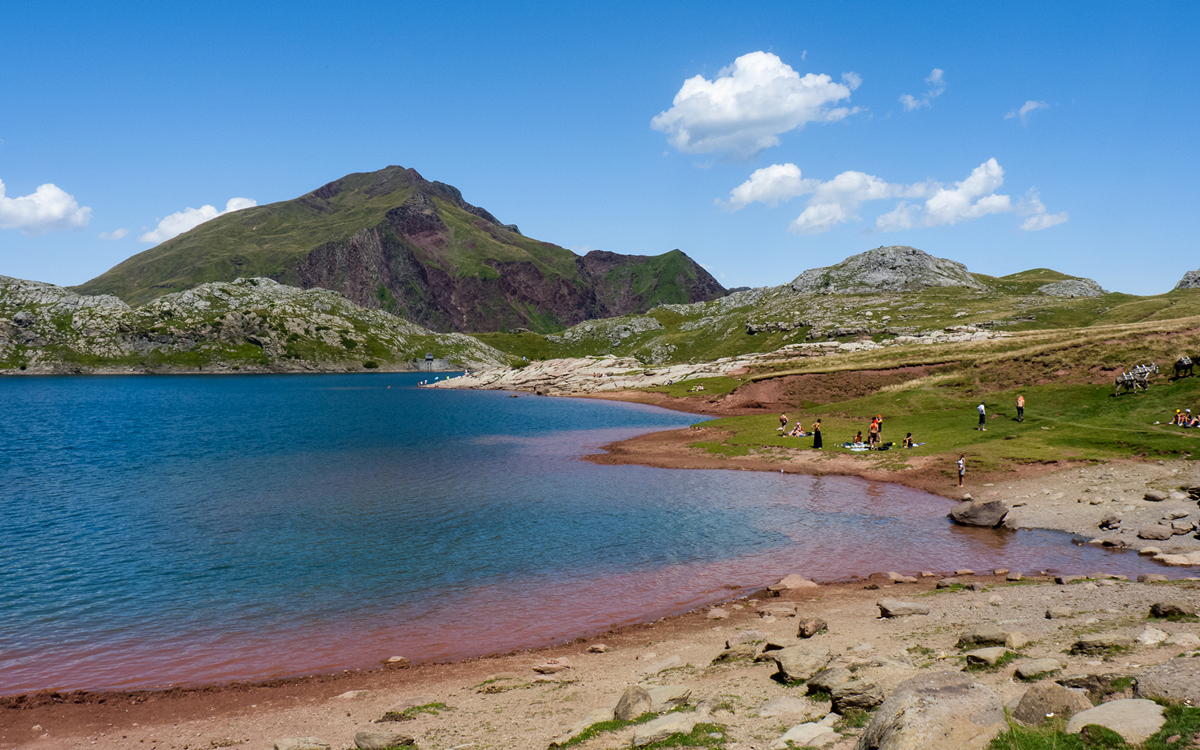 Ibón de Estanés This is a photography of a Site of Community Importance in Spain with the ID: ES2410003. Natura2000 entry, EEA entry